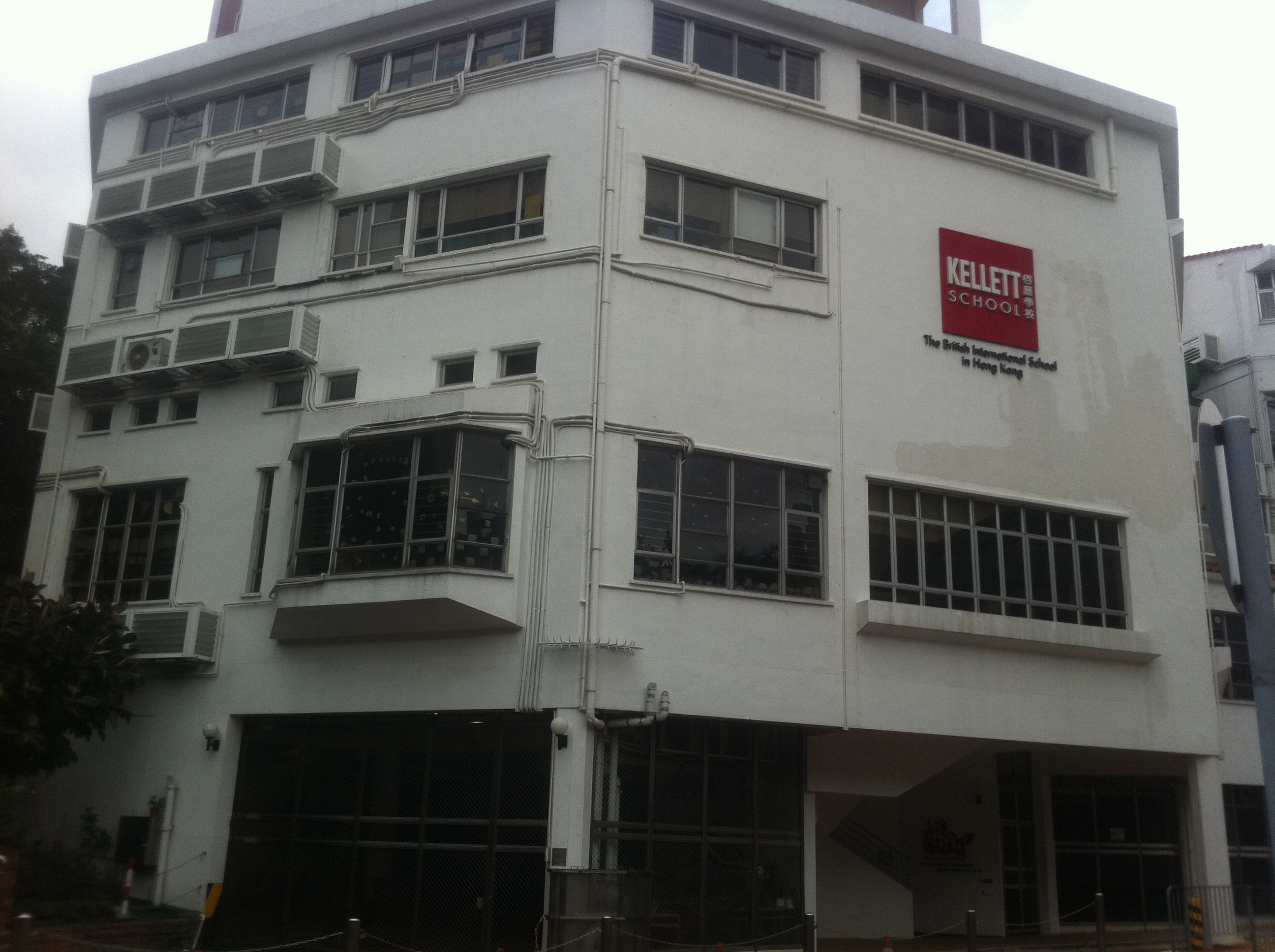 British International School, Wah Lok Path, Wah King Street, Wah Fu Estate, Hong Kong